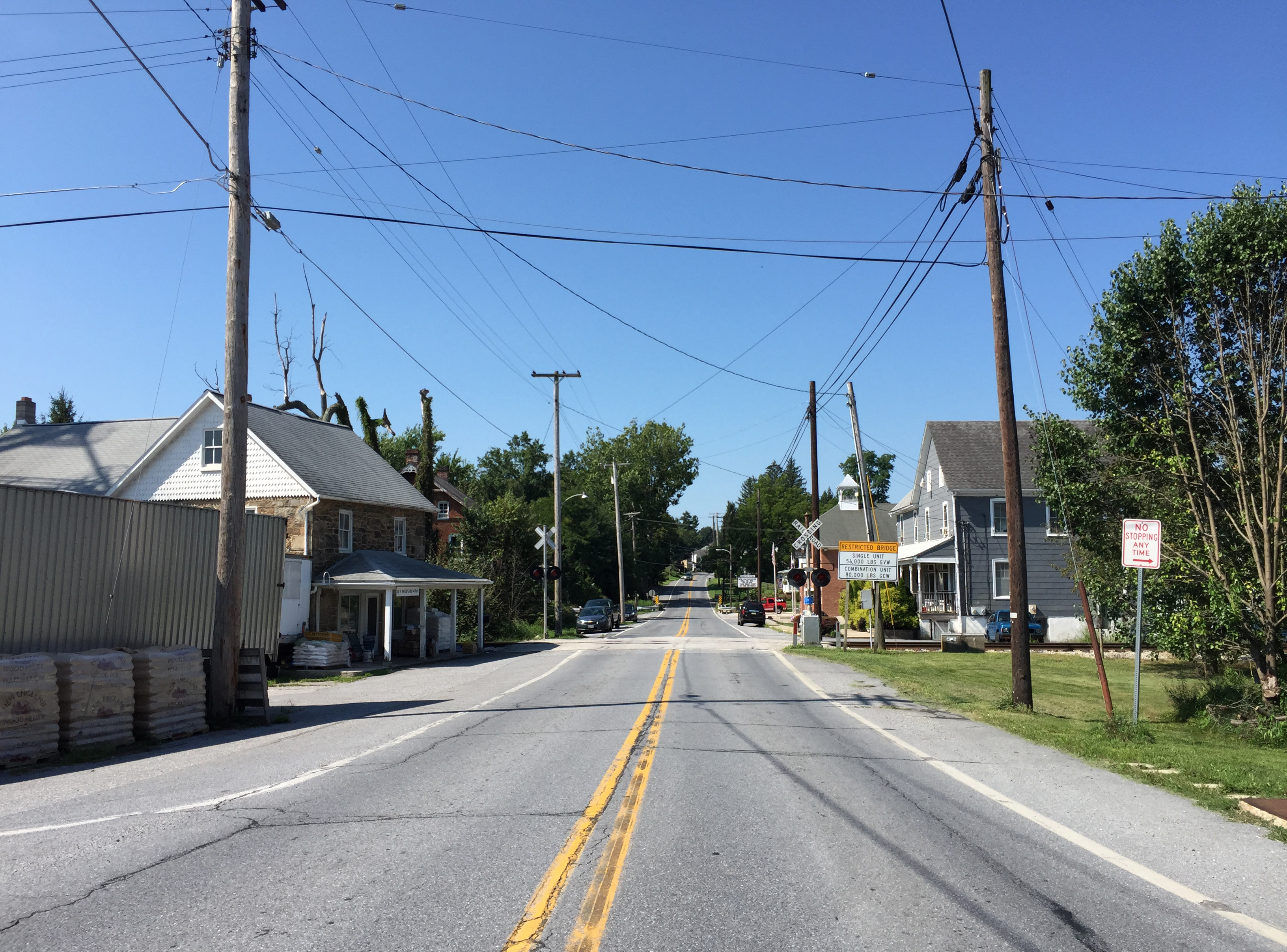 View south along Maryland State Route 86 (Main Street) at Mill Street in Lineboro, Carroll County, Maryland